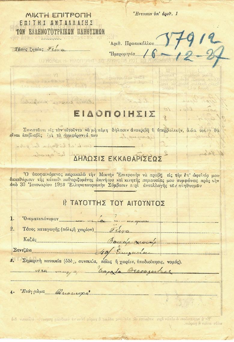 Declaration of property during the Greek-Turkish population exchange (1923-1927)